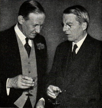 Exiting British Minister in Stockholm Sir Victor Mallet (left) with Foreign Minister Christian Günther. The photo was taken at a reception given by Sir Victor on 12 May 1945, partly to celebrate the Allied victory, and to his farewell. Sir Victor, who left Sweden at the end of June, was succeeded by the Embassy Council of Buenos Aires Cecil Bertrand Jerram.